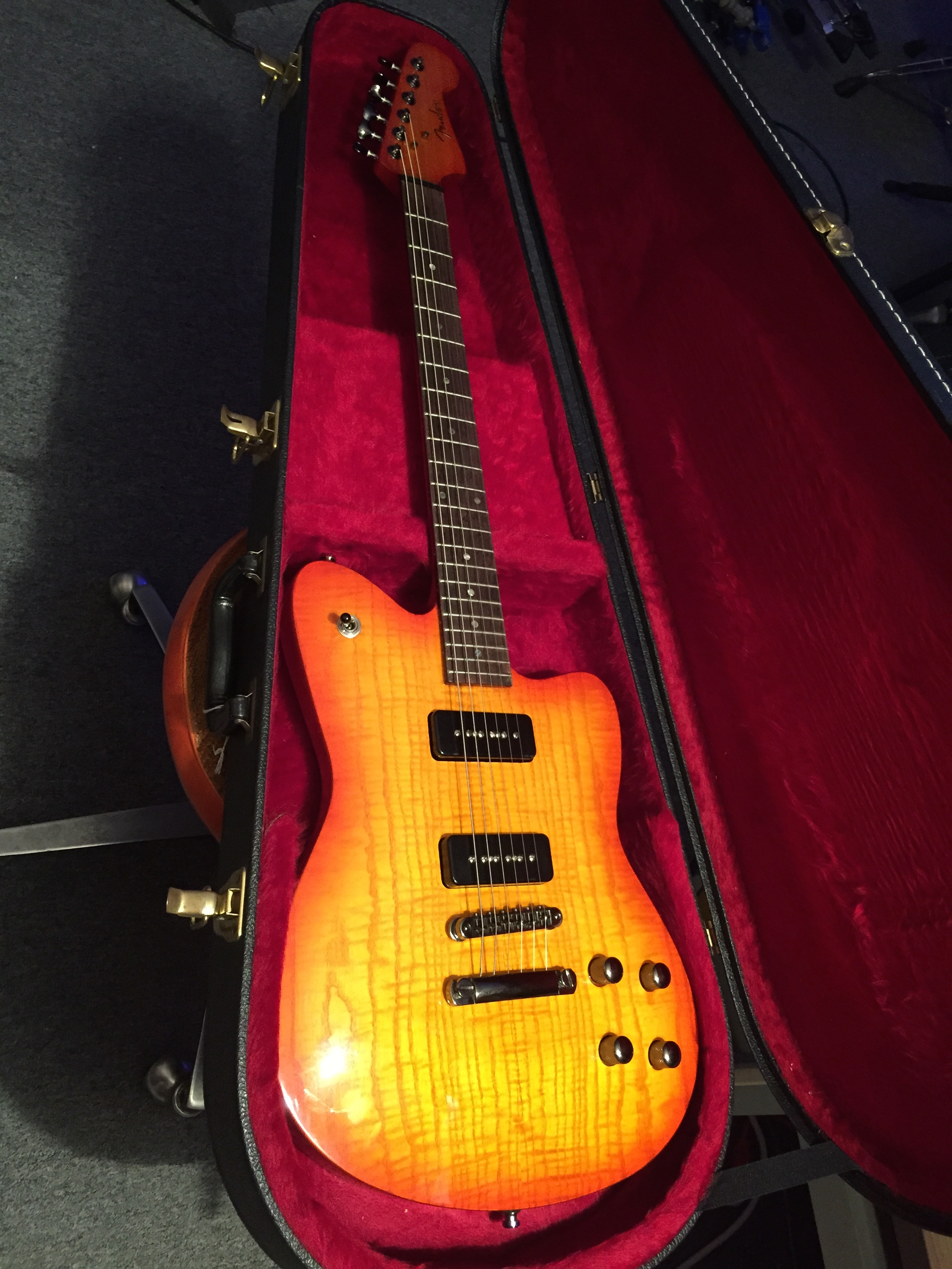 Cherryburst Fender Toronado CT P90 from mid 2000s. This is a very rare Korean made Fender guitar originally produced for the European market only.